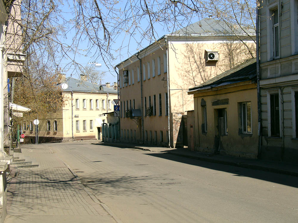 Basmanny Lane in Moscow, which is not in Basmanny District, but in Krasnoselsky District.